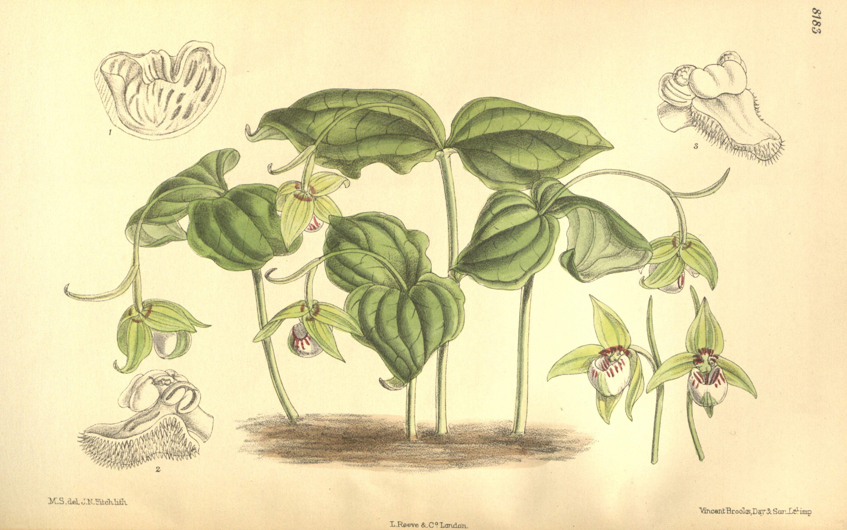 Illustration of Cypripedium debile